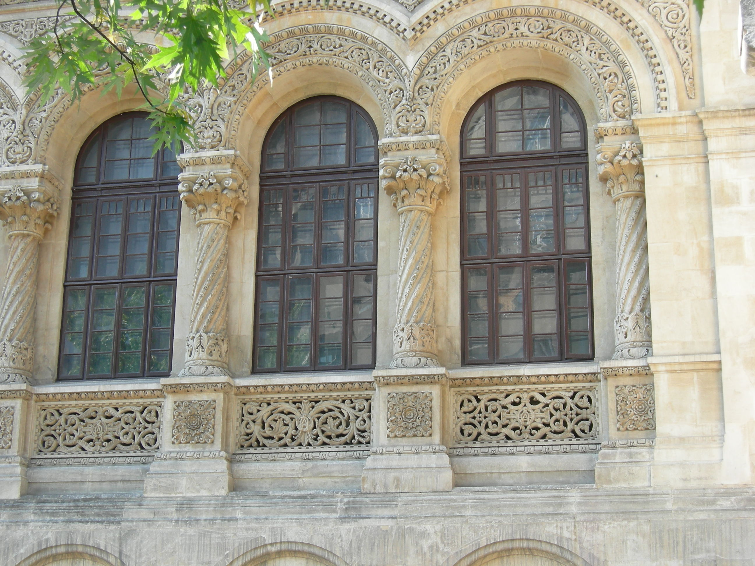 Architecture Faculty, University of Bucharest, Romania.